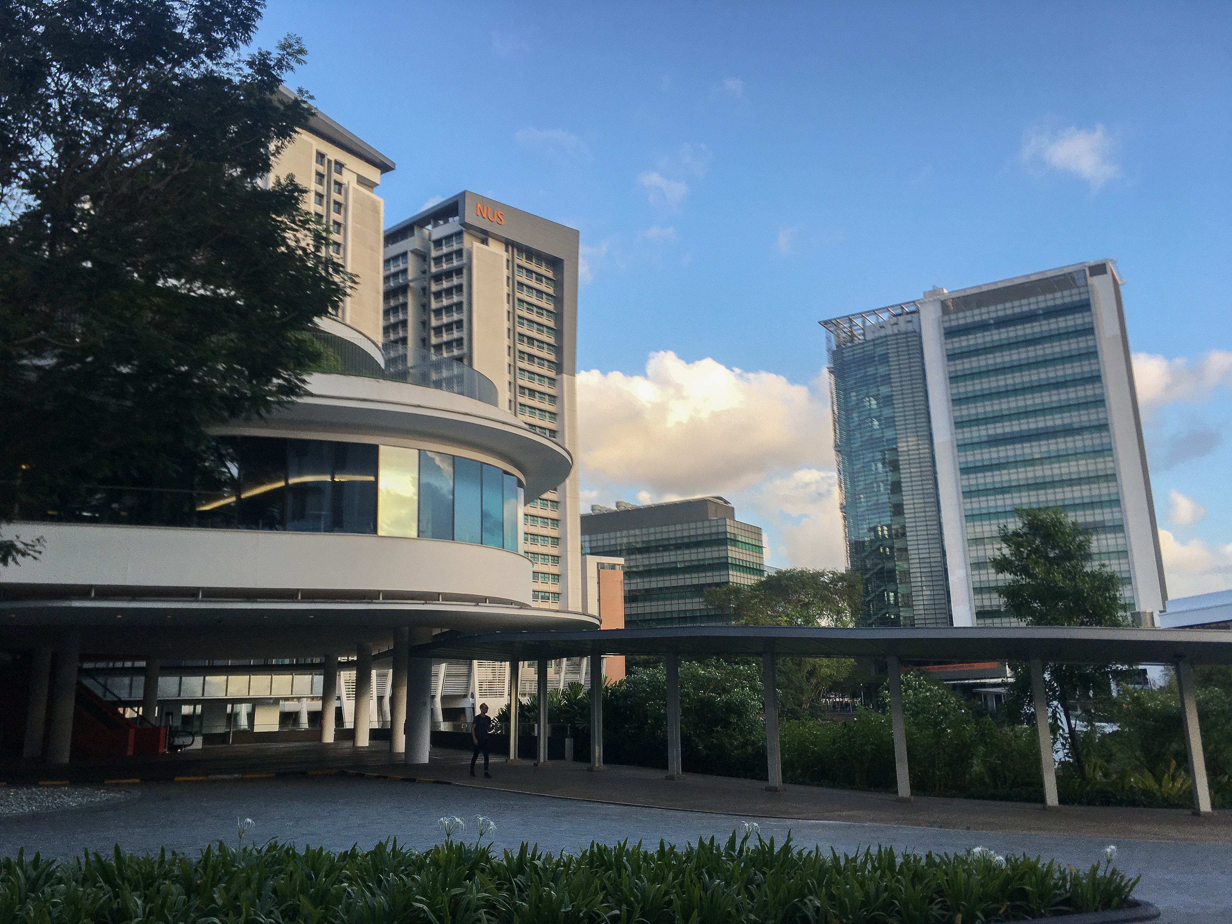 University Town, a residential and educational development at the National University of Singapore. Buildings shown include the Educational Resource Centre, the UTown Residences, and the CREATE research complex.